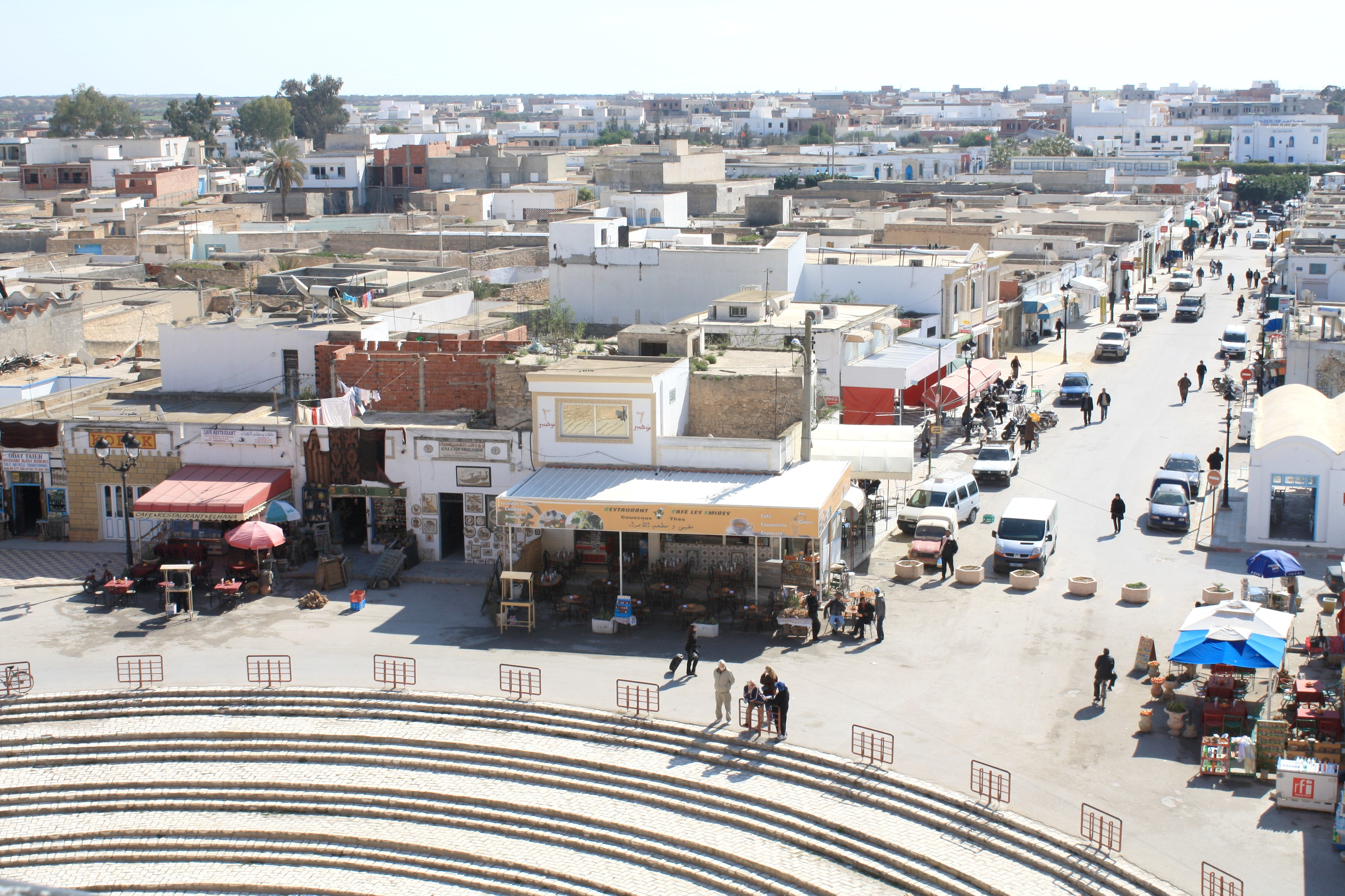 Street of El Jem in front of the amphitheatre